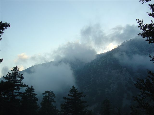 View of Mount Baldy — from Mount Baldy Zen Center, San Gabriel Mountains.DSC01297